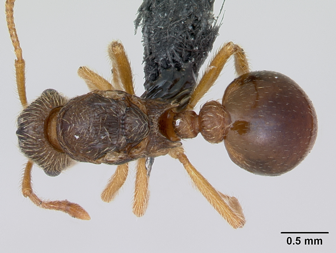 Dorsal view of ant Myrmica karavajevi specimen casent0172766.